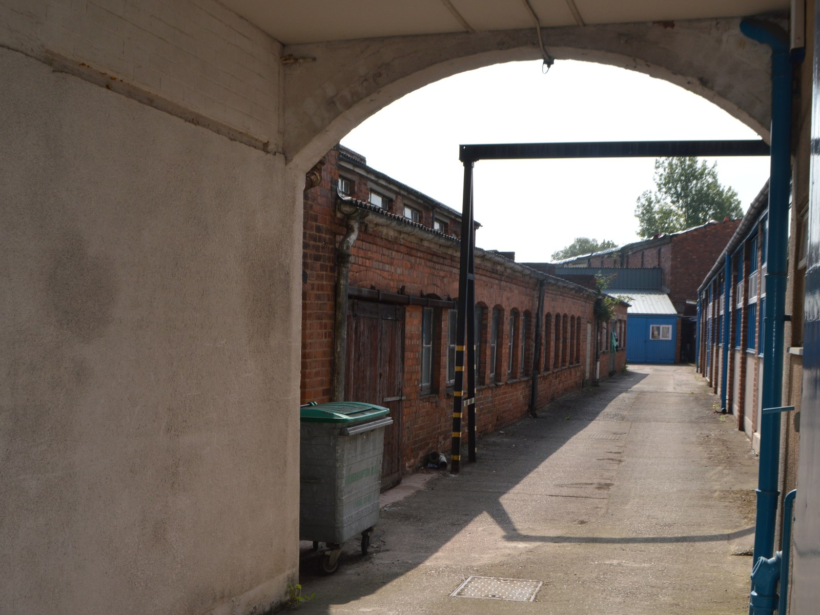 Factory yard in Upper Villiers Street